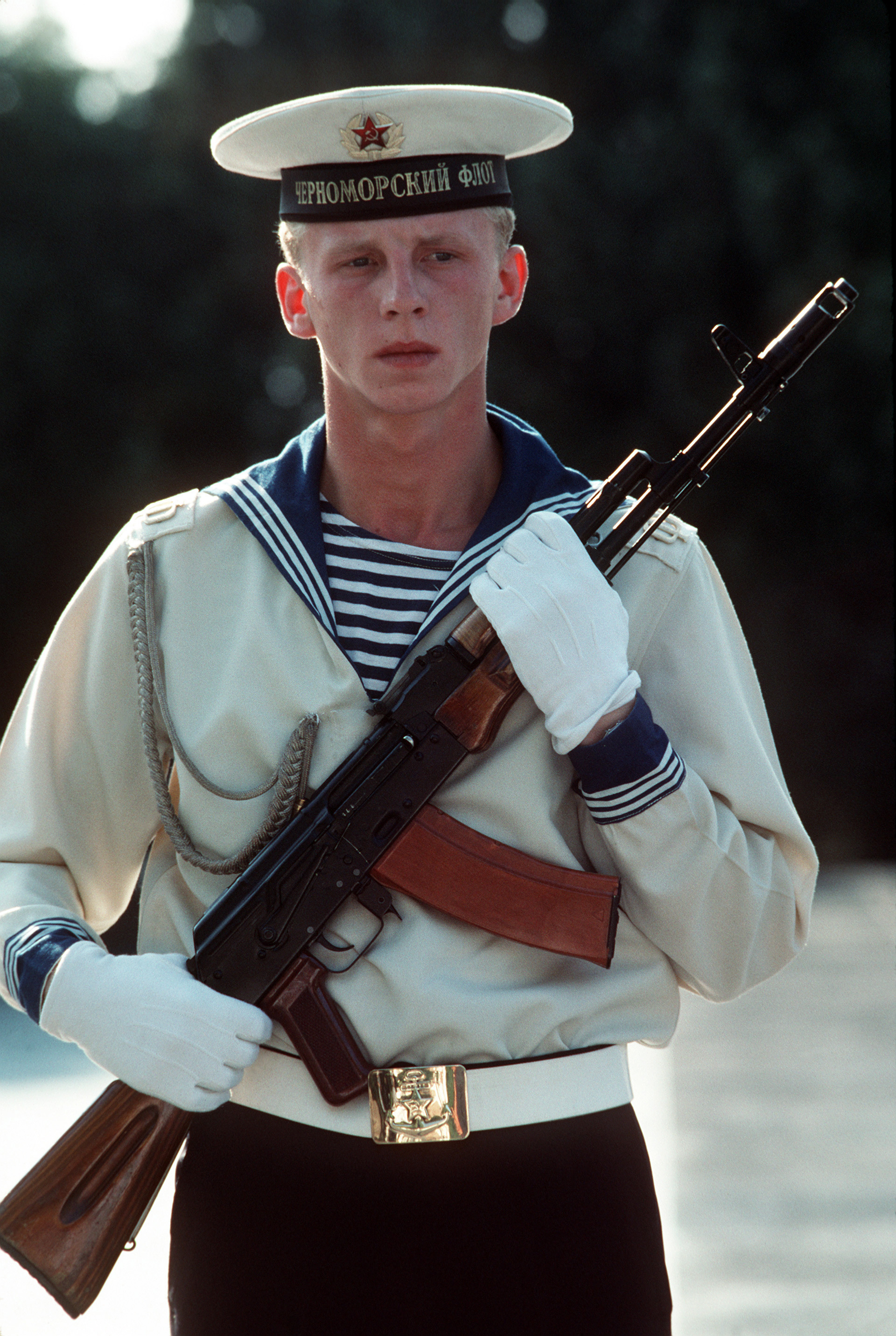 A Soviet sailor (The Black sea fleet) holding an AK-74 assault rifle stands at port arms during the visit of the Aegis guided missile cruiser USS THOMAS S. GATES (CG 51) and the guided missile frigate USS KAUFFMAN (FFG 59). It is the second goodwill visit by American warships to a Soviet port since World War II.